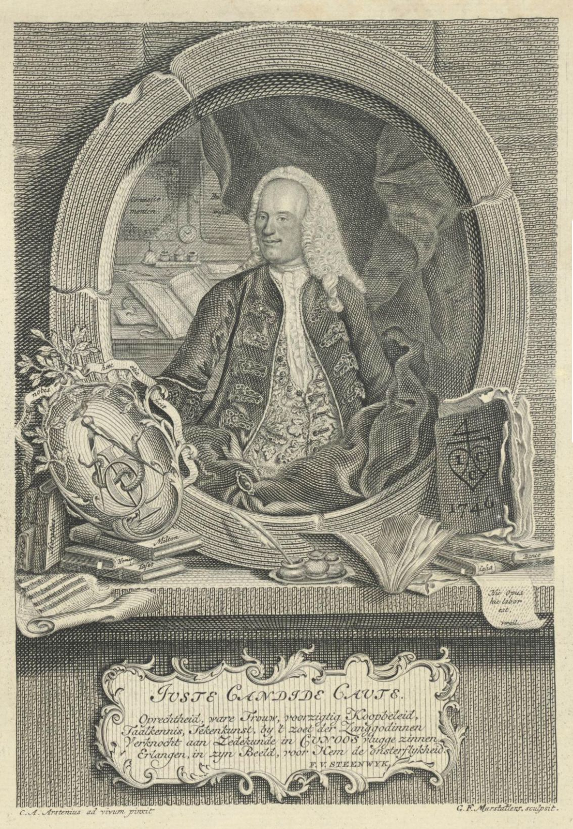 Copper engraving of Johann Christian Cuno (1708-1783), 208 x 153 mm, Münster, "LWL-Landesmuseum für Kunst und Kulturgeschichte, Porträtarchiv"